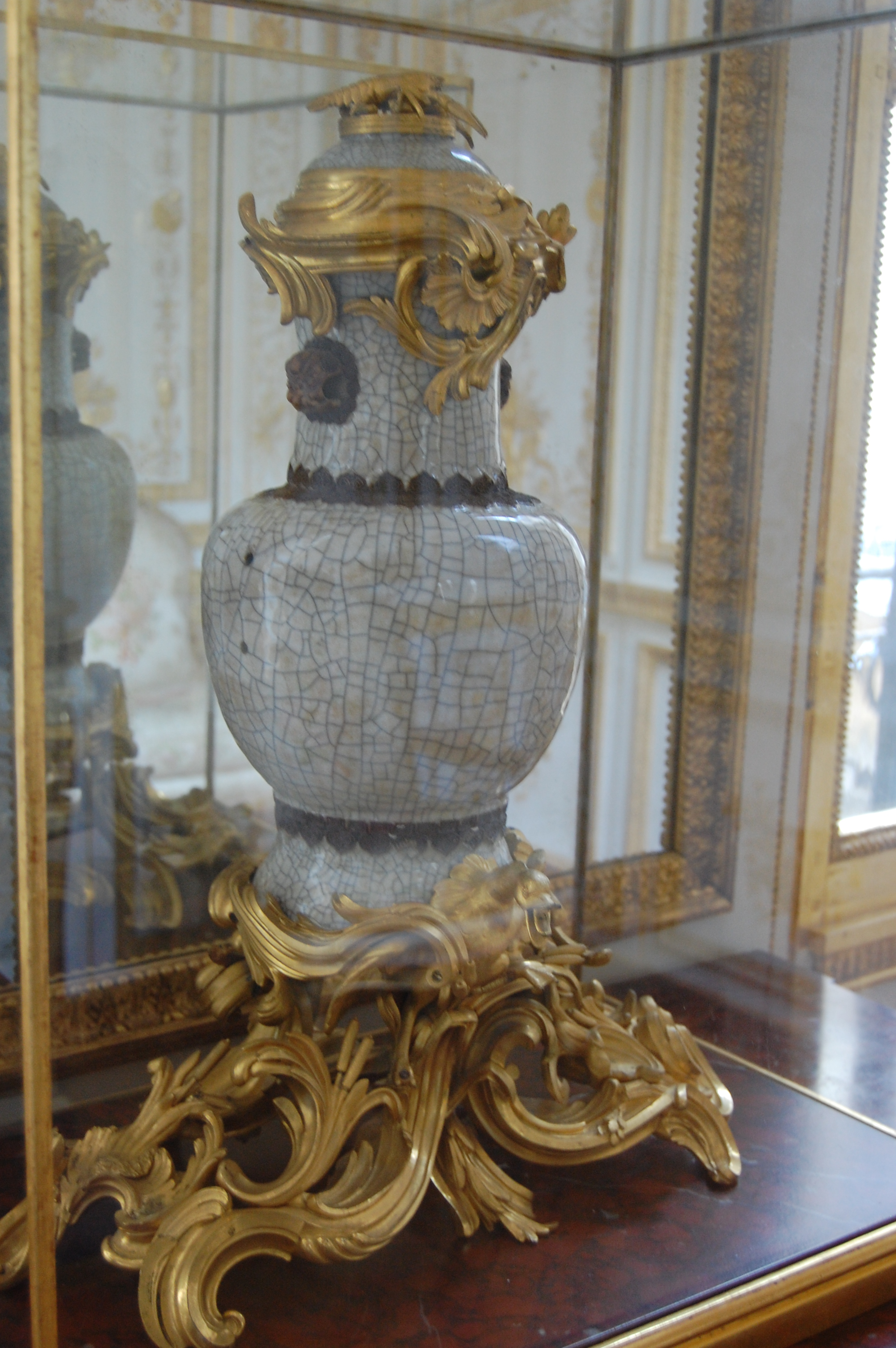 Louis XV's perfume fountain